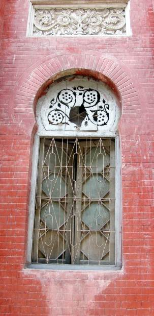 window